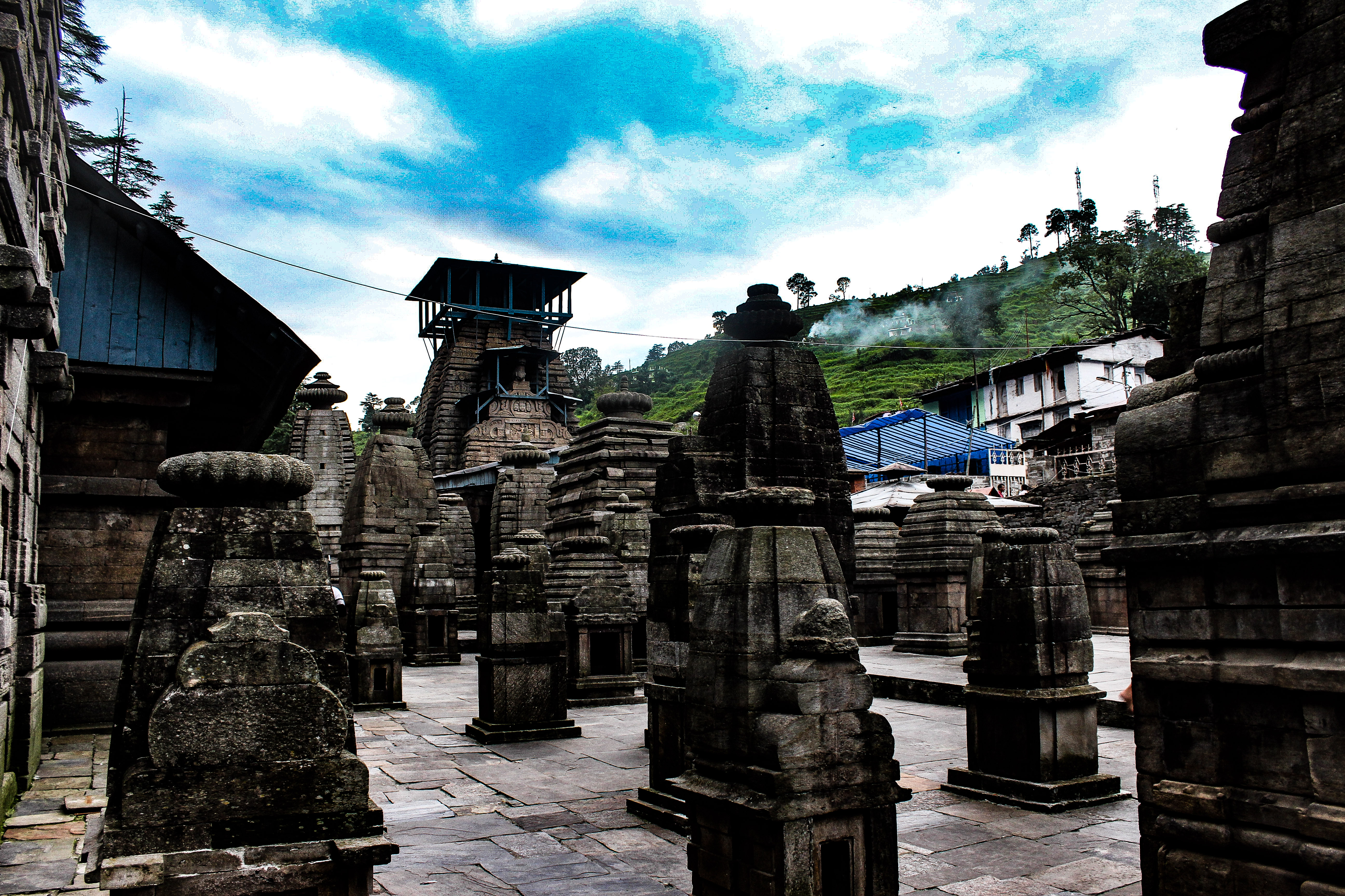 MRITUNJAYA TEMPLE (PHULAI GUNTH), Jageshwar, Almora, Uttarakhand, India. Geo-Coordinates:Lat. 29° 38'19" N; Long. 79° 51'16" E. One of the oldest and most popular seats of Lord Shiva found in Uttarakhand state, Maha Mrityunjay temple is located in the vicinity of Jageshwar. It is believed that Adi Shankaracharya visited Jageshwar and renovated and re-established many temples before leaving for Kedarnath. The temples architecture belong to the Nagara style, characterized by a tall curved spire surmounted by an amalaka (capstone) and a kalasha crown. The temples originally constructed during the Gupta period were renovated by the rulers of the Ghand dynasty in the 7th century AD. .